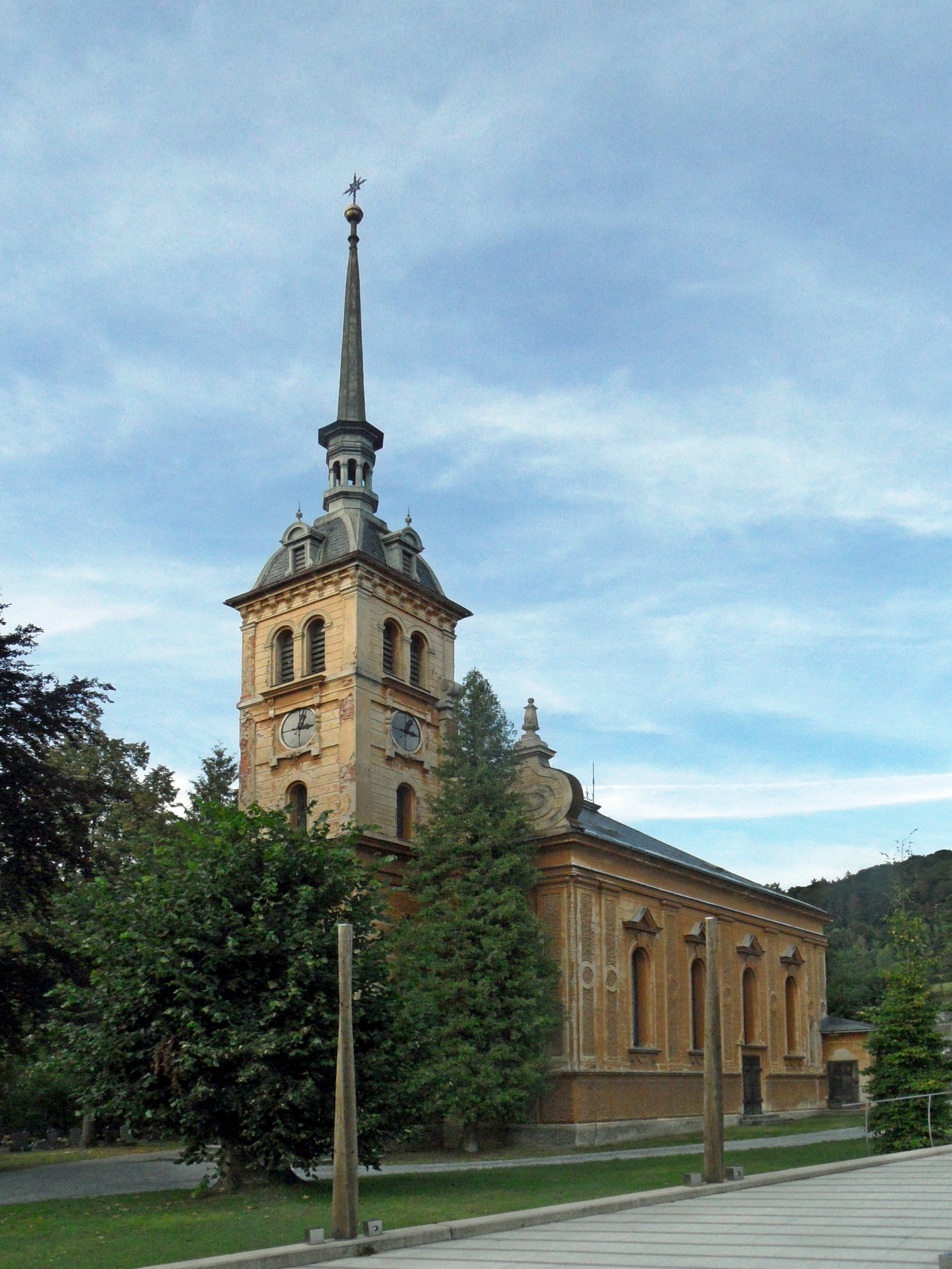 Church of Saint George in Bukovice (Jeseník) A. Overview from South-West. Jeseník District, the Czech Republic.